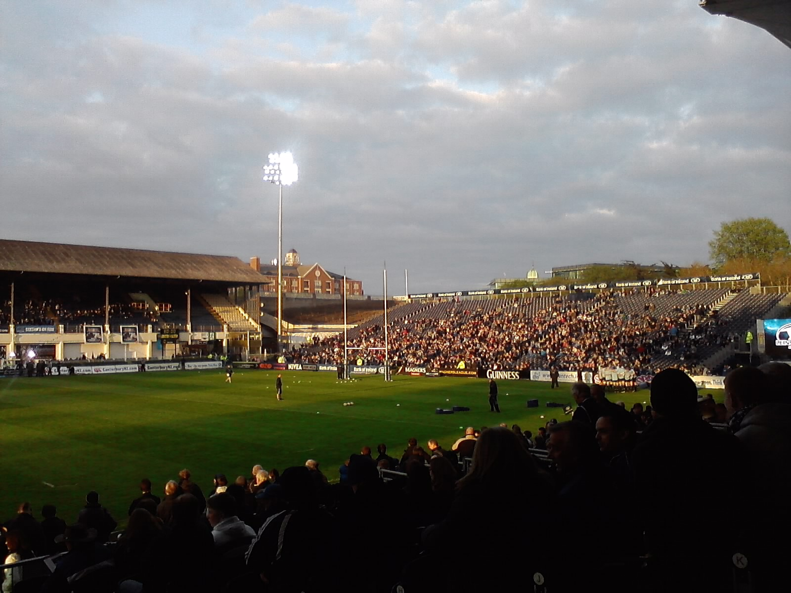 View of the Anglesea Stand (left) and one of the removable goal line stands at the RDS, Dublin.